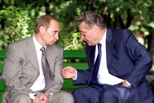 CHISINAU. President Vladimir Putin with Moldovan President Petru Lucinschi.